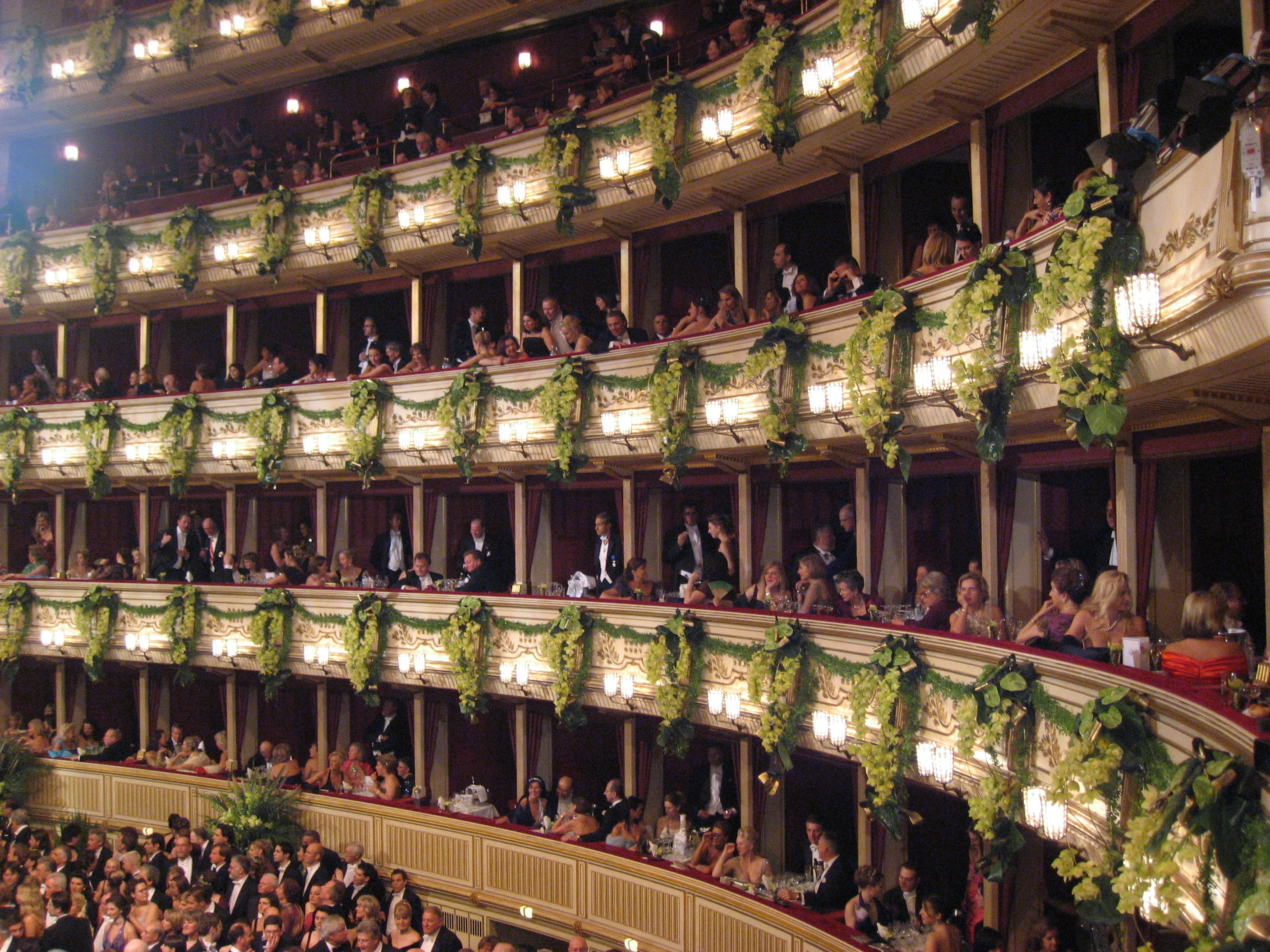 Opernball loges